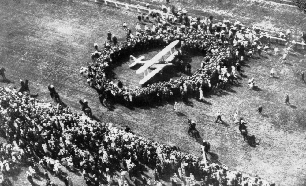 Bert Hinkler returning to Brisbane after his solo flight London to Brisbane, February 1928. Avro Avian Cirrus landing at Ascot racecourse in Brisbane after completing his most renowned pioneering solo flight from England to Australia in 1928.